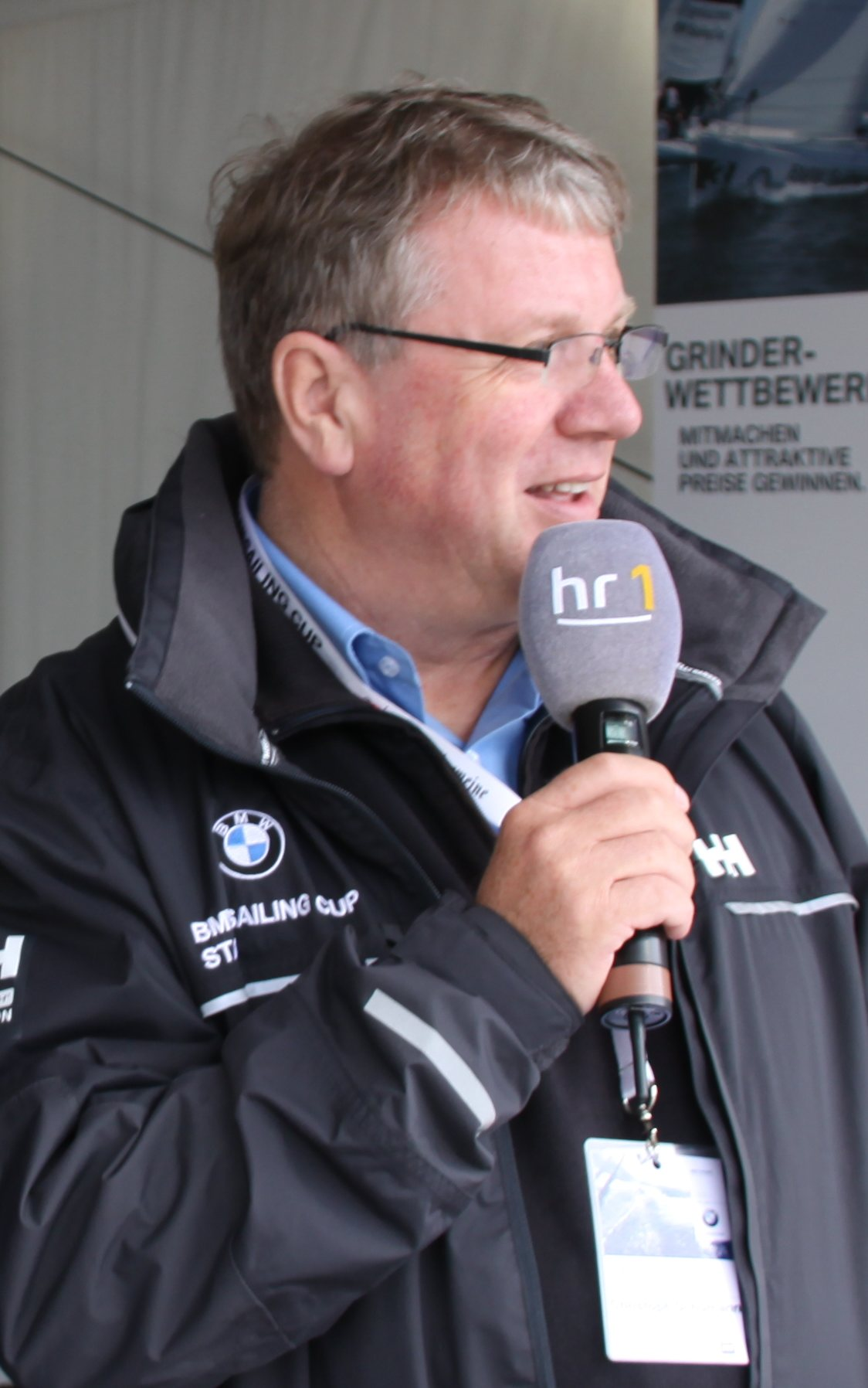 Cristoph Schumann